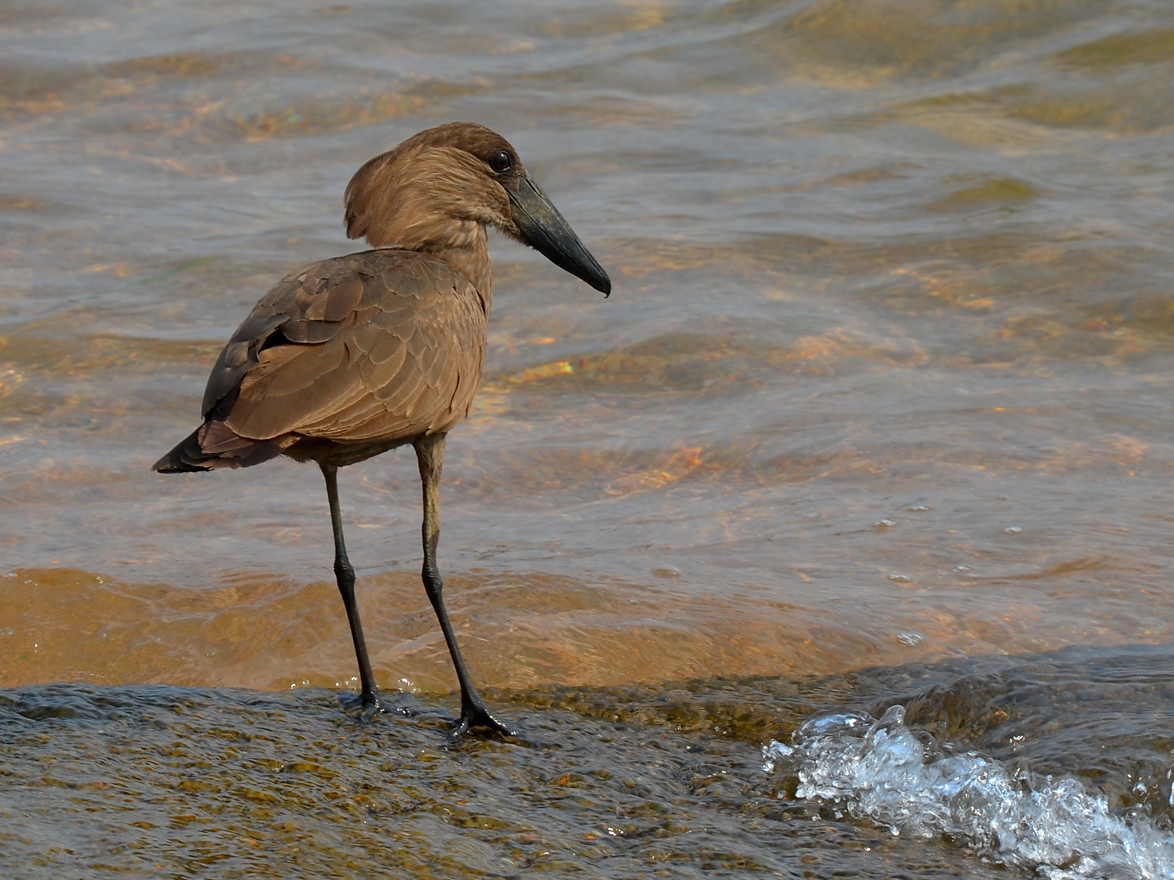 Hammerkop at Lake Malawi, Malawi